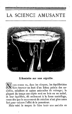 L'assiette sur une aiguille : assorted kitchenware is hanging from a plate. A description of a do-it-yourself scientific amusement from a collection by "Tom Tit" (Arthur Good), published in 1891.